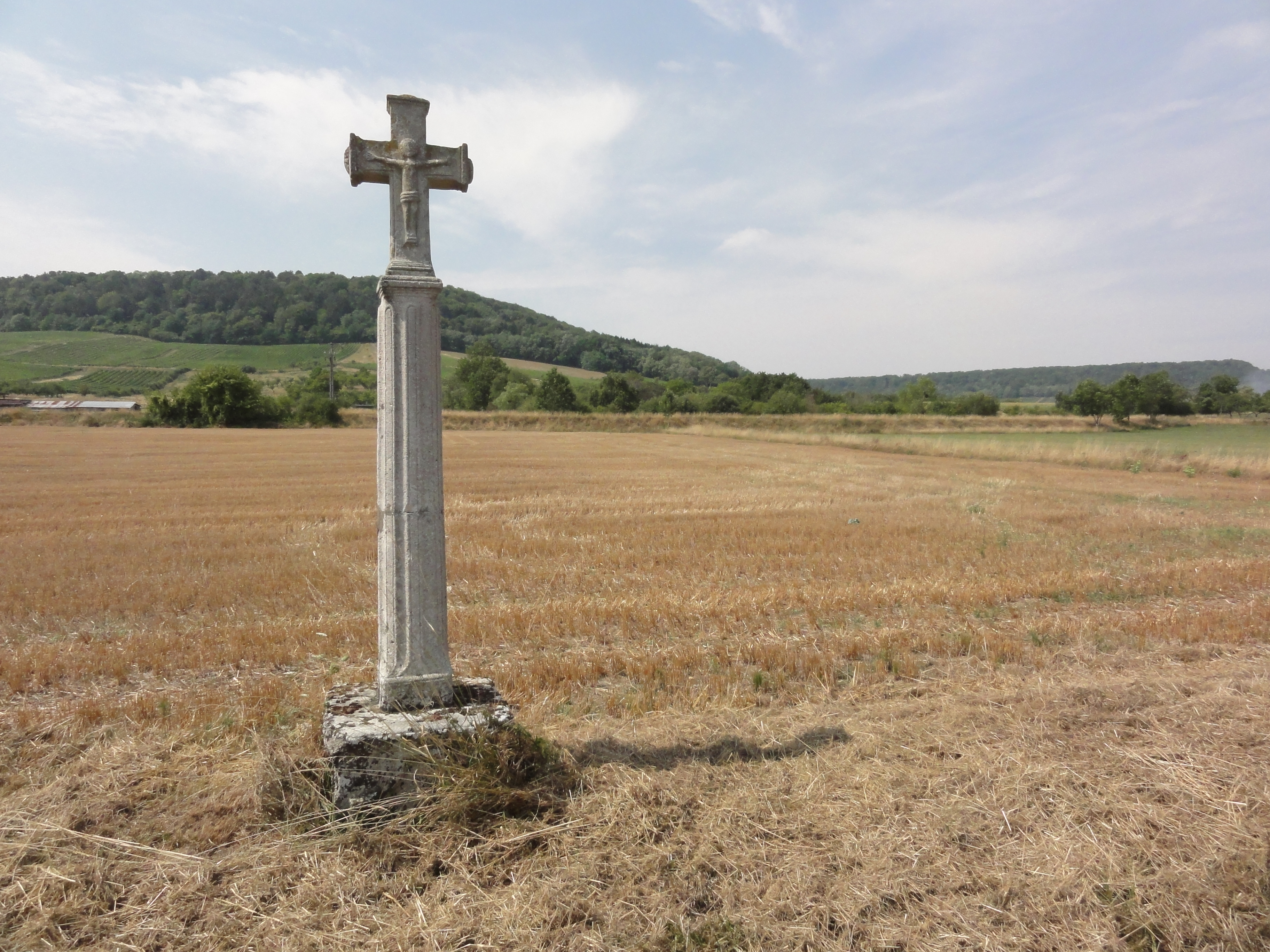 Bruley (Meurthe-et-M.) croix de chemin et paysage